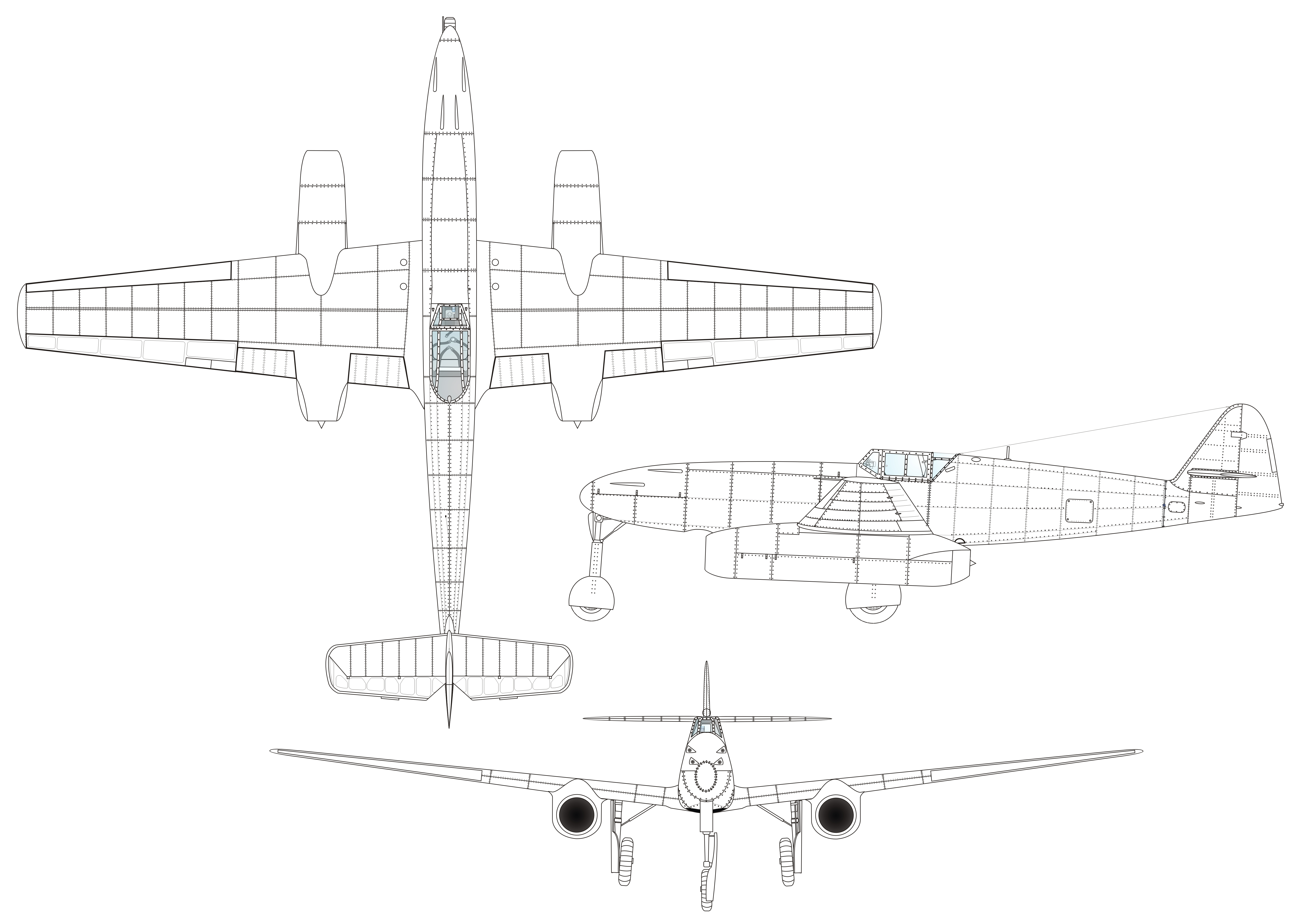 Bf 109 TL